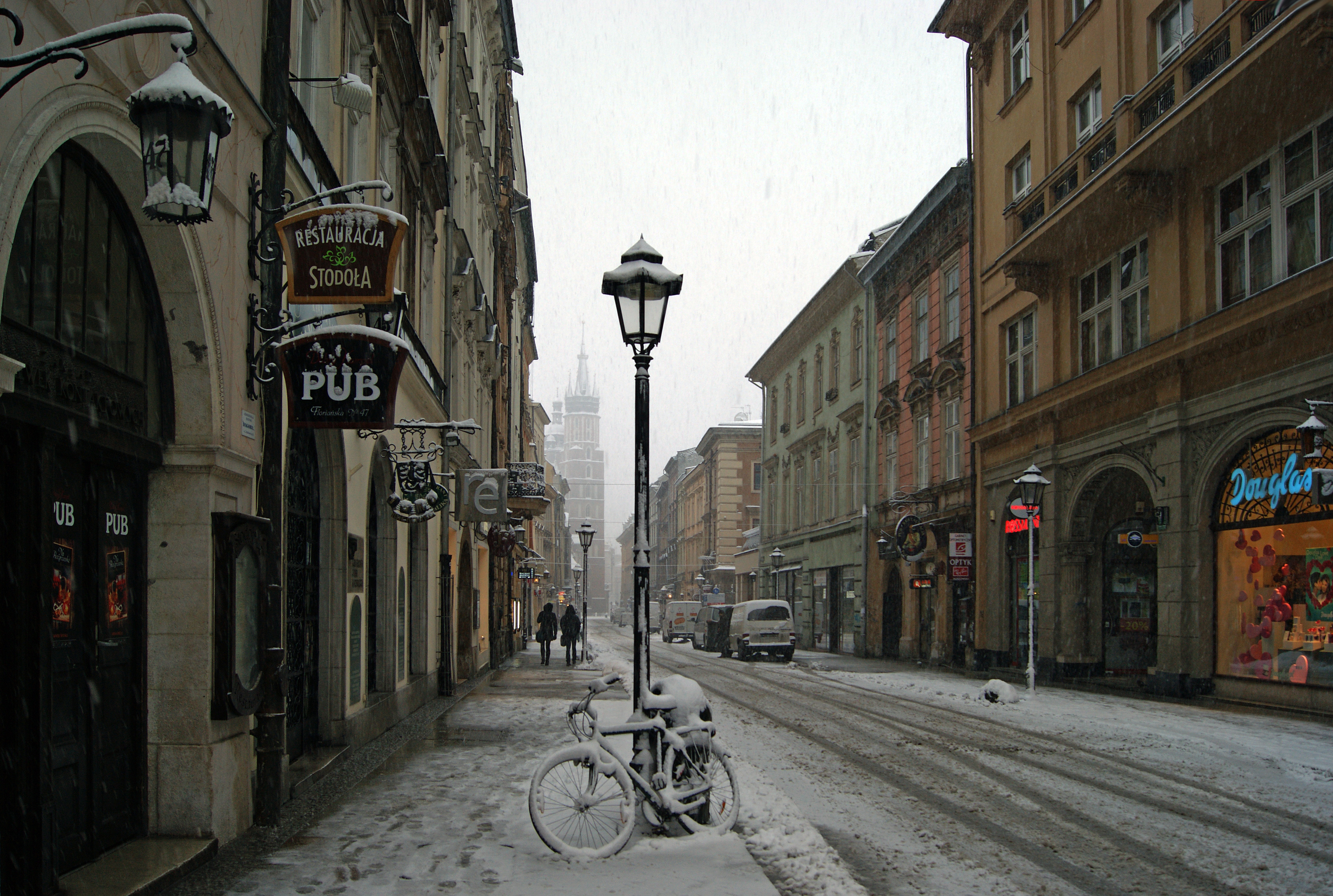 Florianska street, Old Town, Krakow, Poland